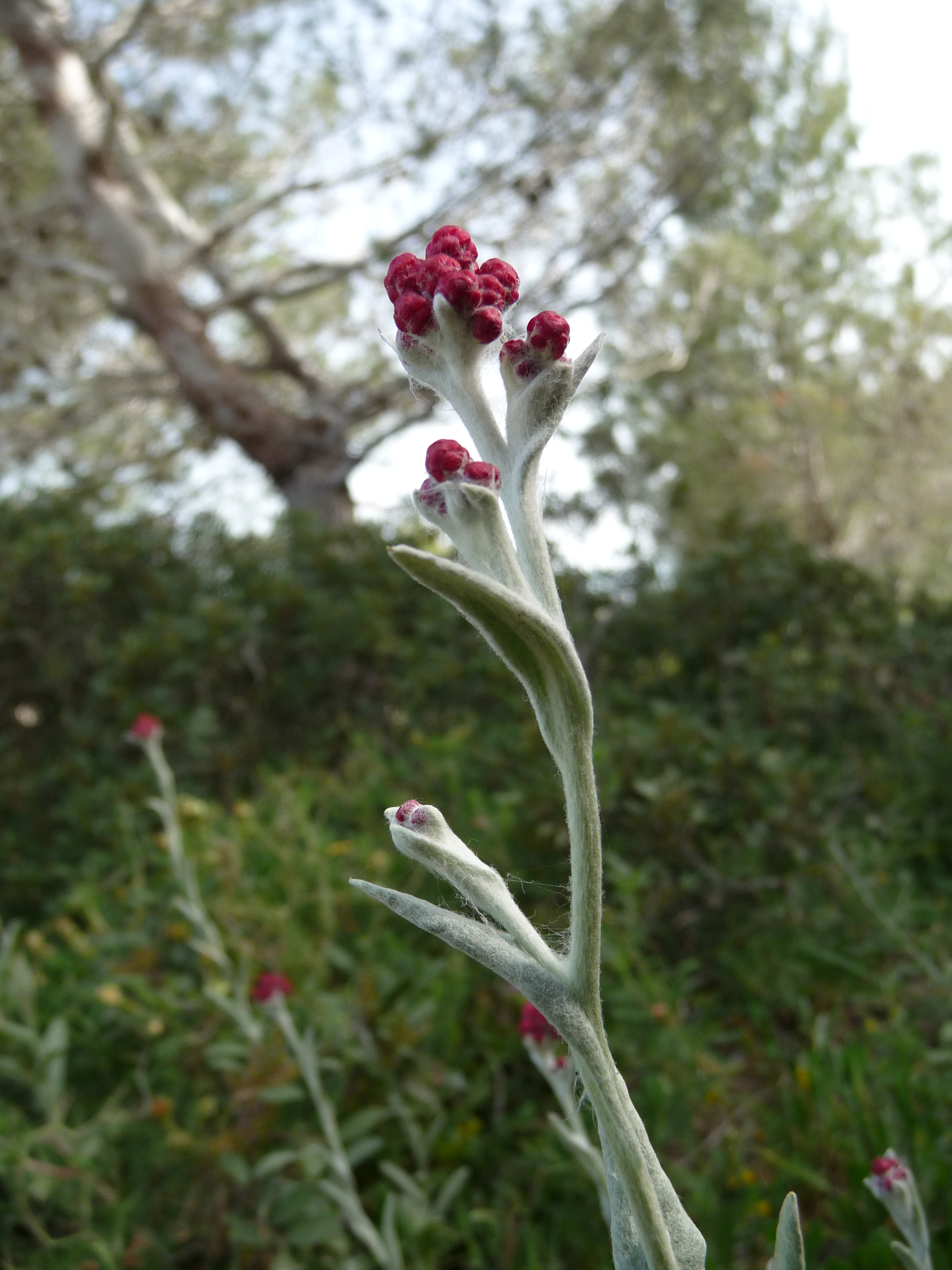 Carmel Park